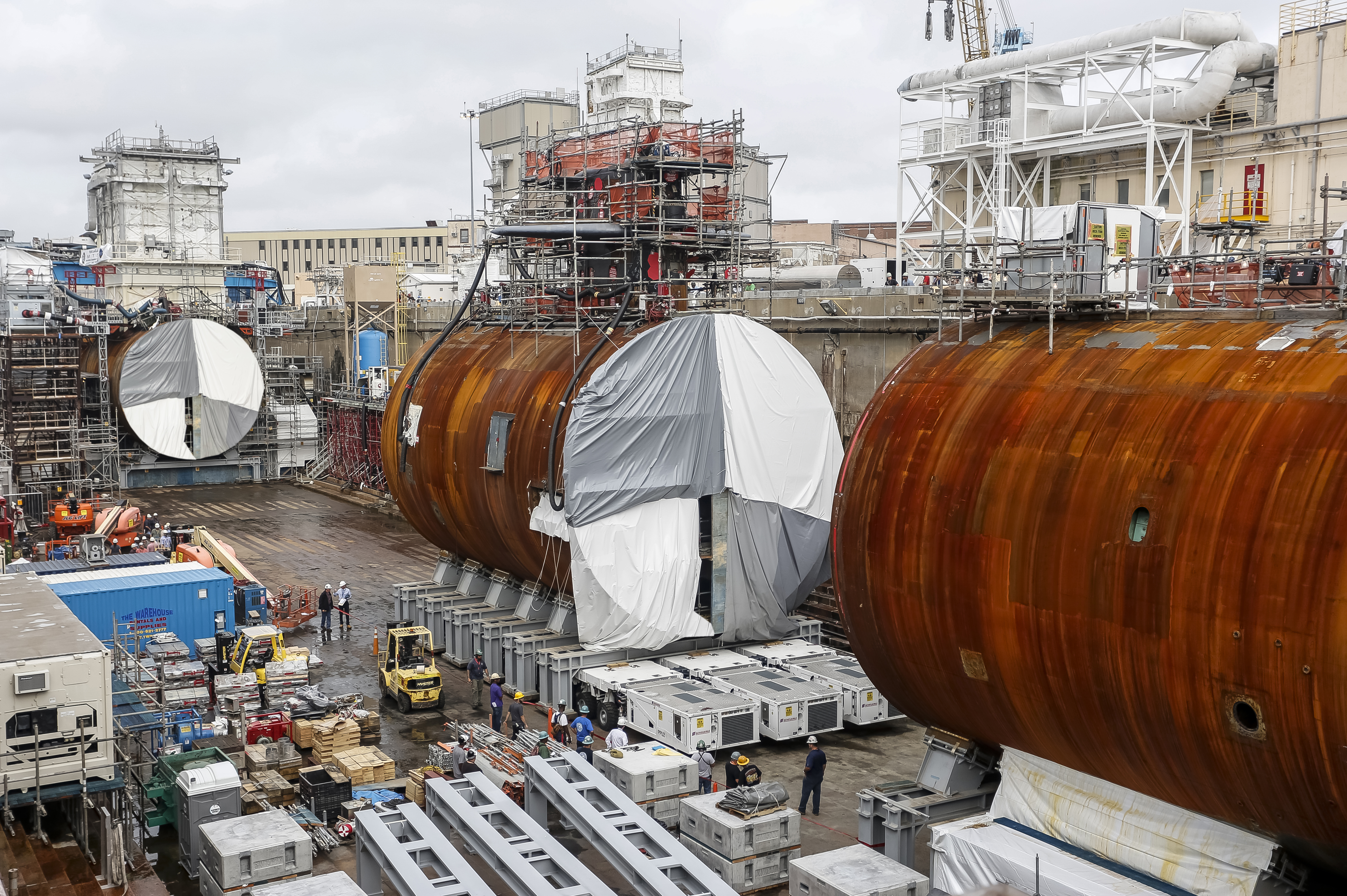 The U.S. Navy submarine USS La Jolla (SSN-701) undergoing conversion from an operational fast-attack submarine into a Moored Training Ship (MTS) at Norfolk Naval Shipyard in Portsmouth, Virginia (USA). With two cuts made and La Jolla separated into three pieces, three new hull sections will be added to the boat, adding 23.14 m (76 ft) in length.